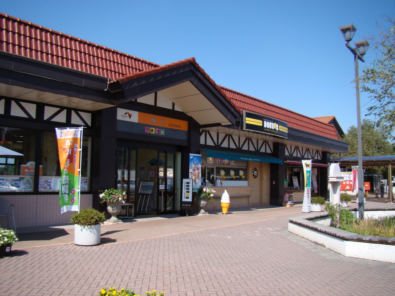 Nagano expressway Azusagawa service area Koshoku side Nagano Japan